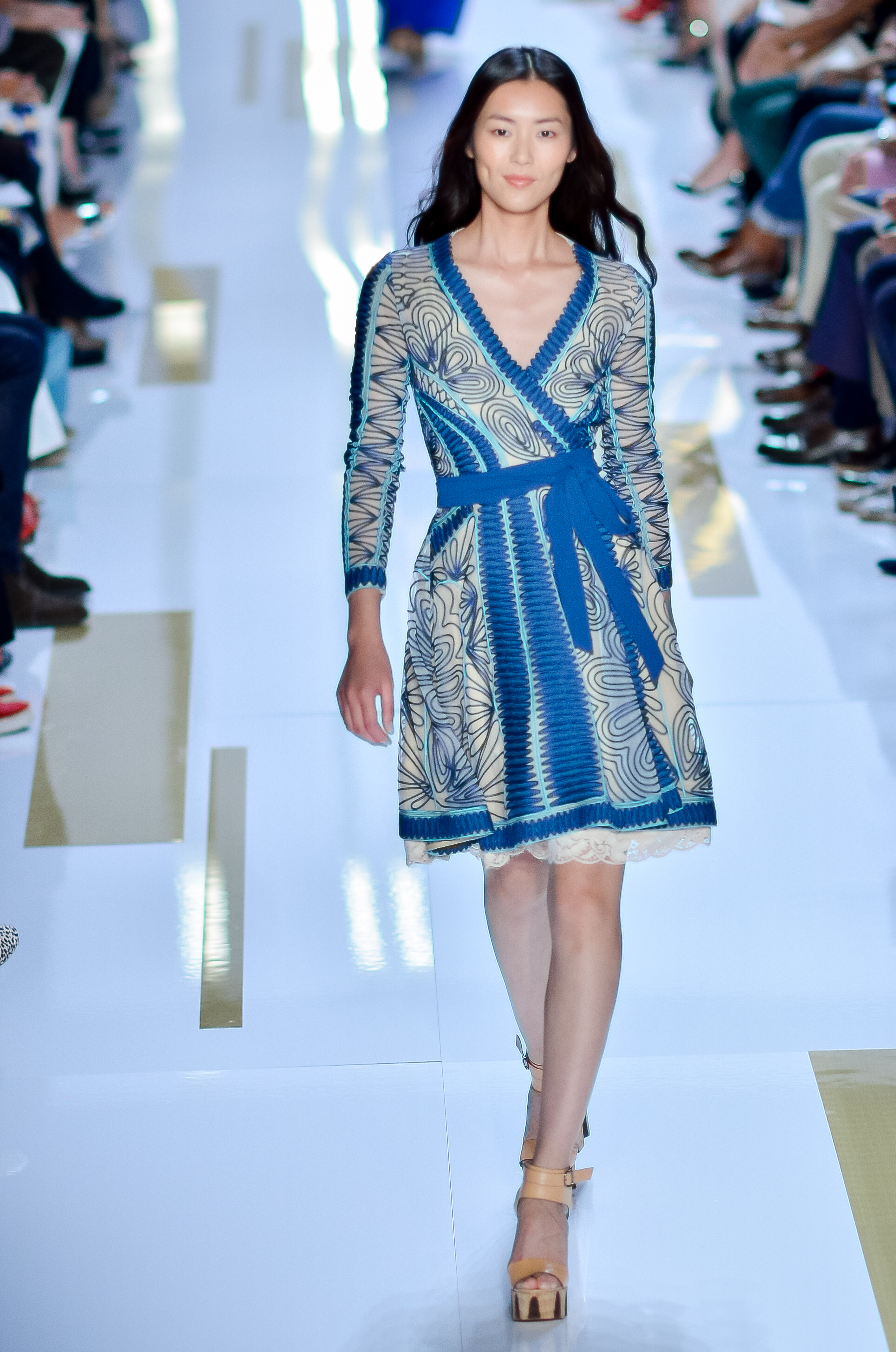 Liu Wen walks the runway at the Diane von Fürstenberg Spring/Summer 2014 show at New York Fashion Week, September 2013.